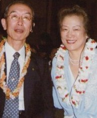 A photo of Rev. Niwano, President of Rissho Kosei-kai, and his wife at a gathering in Nevada in August 2008